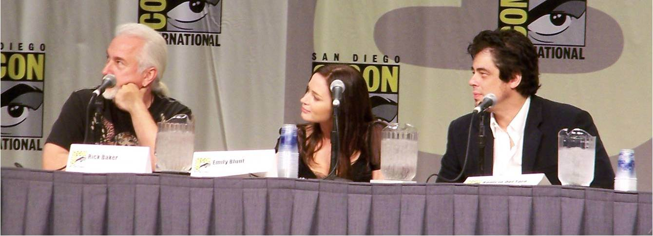 The panel for the 2010 film The Wolfman at the 2008 Comic-Con convention in San Diego, California. From left to right: Rick Baker, Emily Blunt, and Benicio del Toro